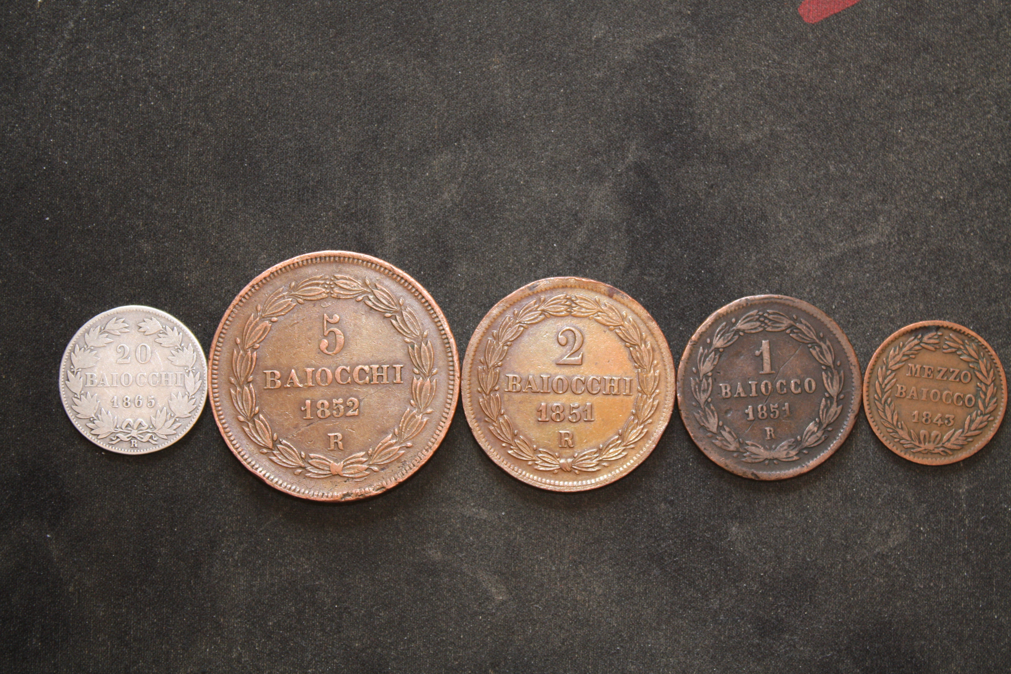 Baiocchi coinage of the Papal States.